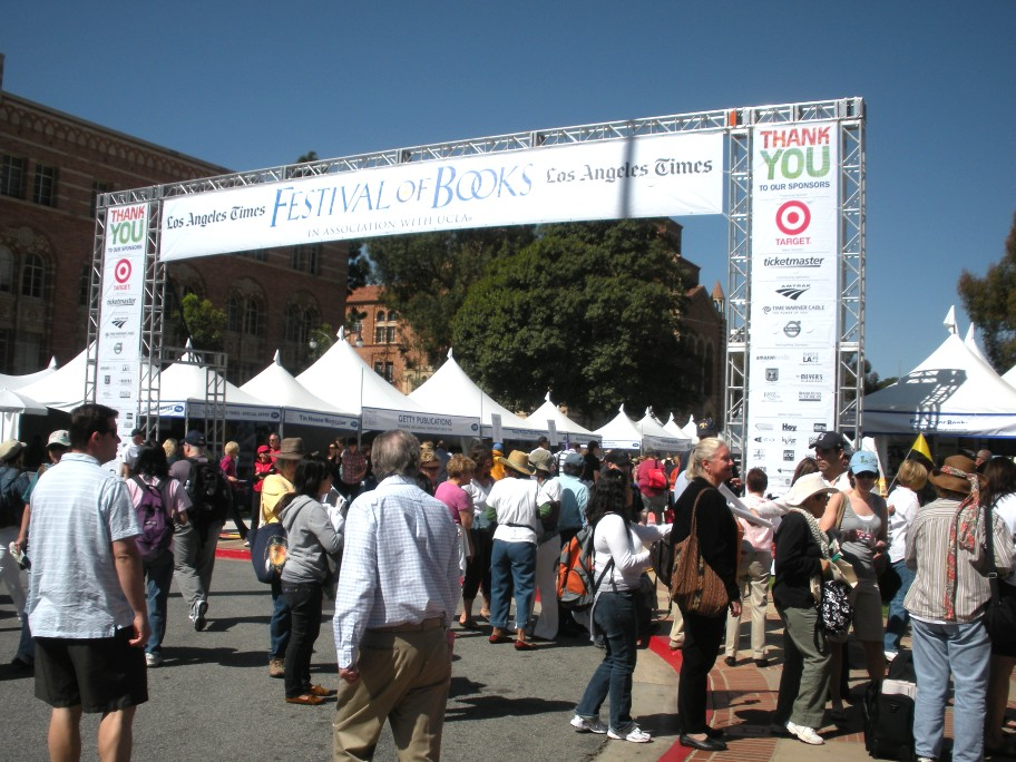 The 2009 Los Angeles Times Festival of Books, April 25-26, at the campus of UCLA.